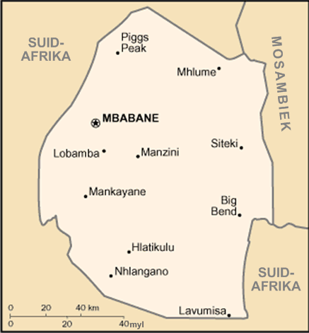 An Afrikaans map of Eswatini.